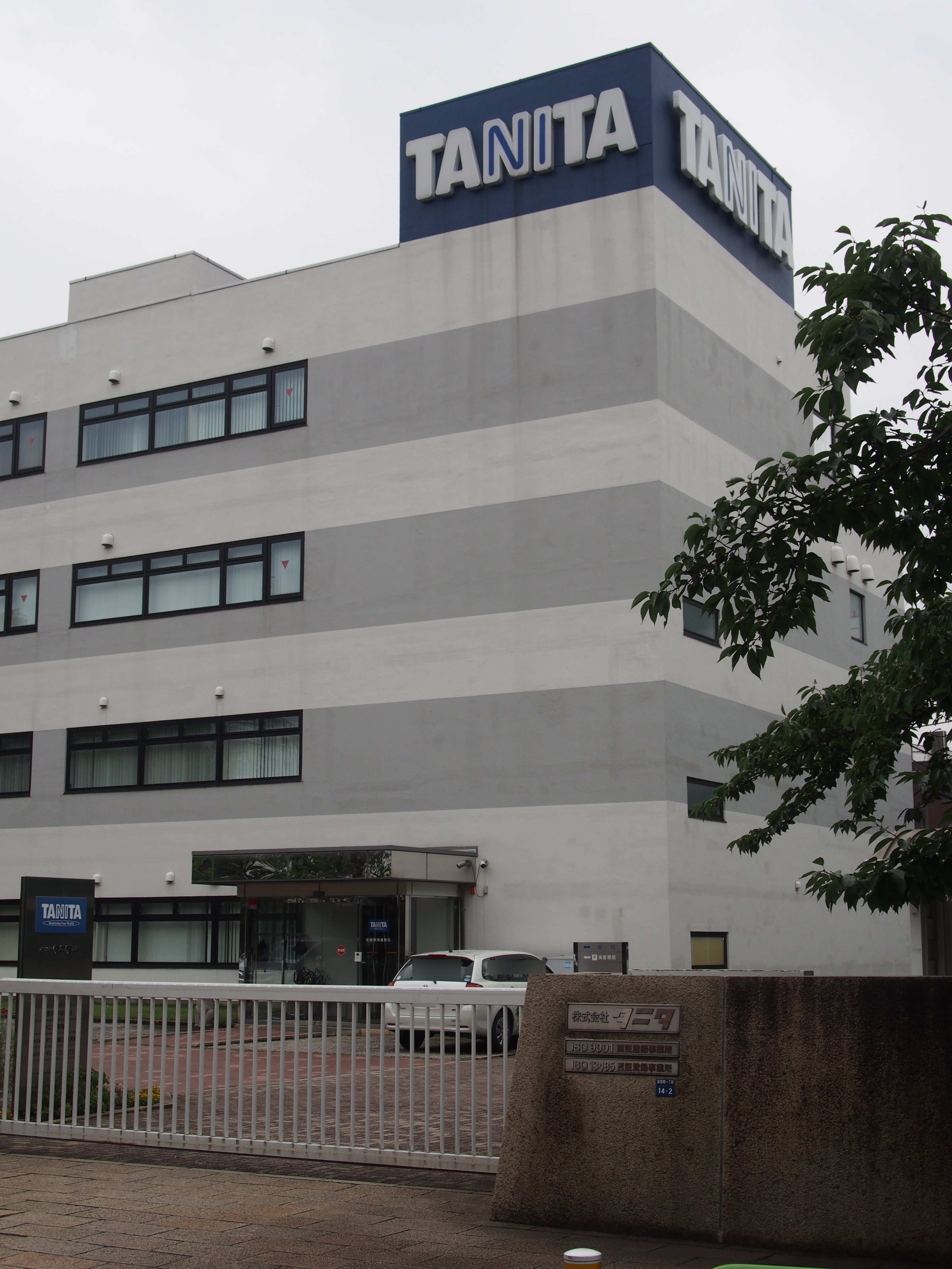 Tanita Headquarters Building in Maenocho, Itabashi, Tokyo, Japan